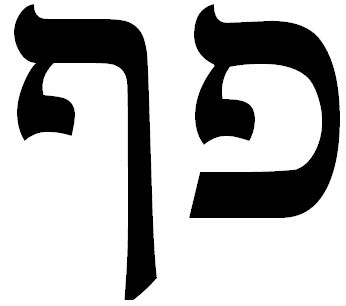 Sofit pe and pe hebrew letters